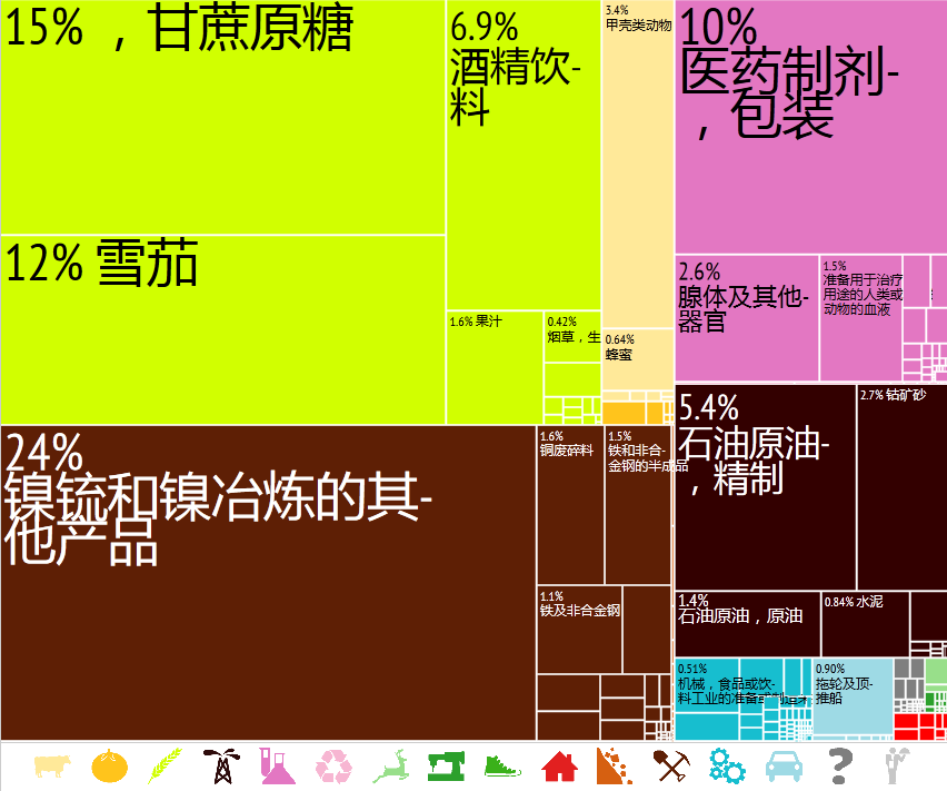 Cuba Export Treemap from MIT Harvard Economic Observatory